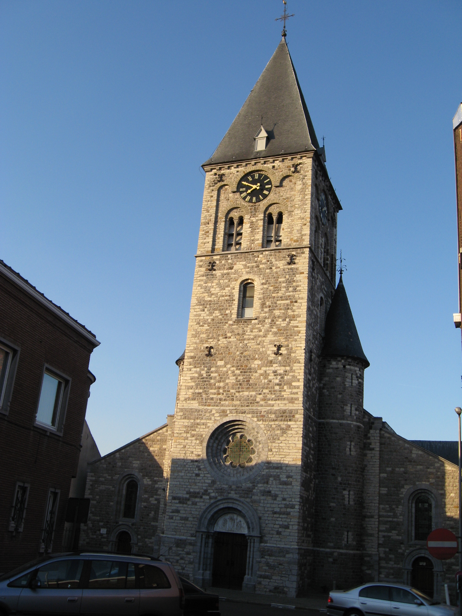 Church of Saint Gertrude in Landen, Flemish Brabant, Belgium